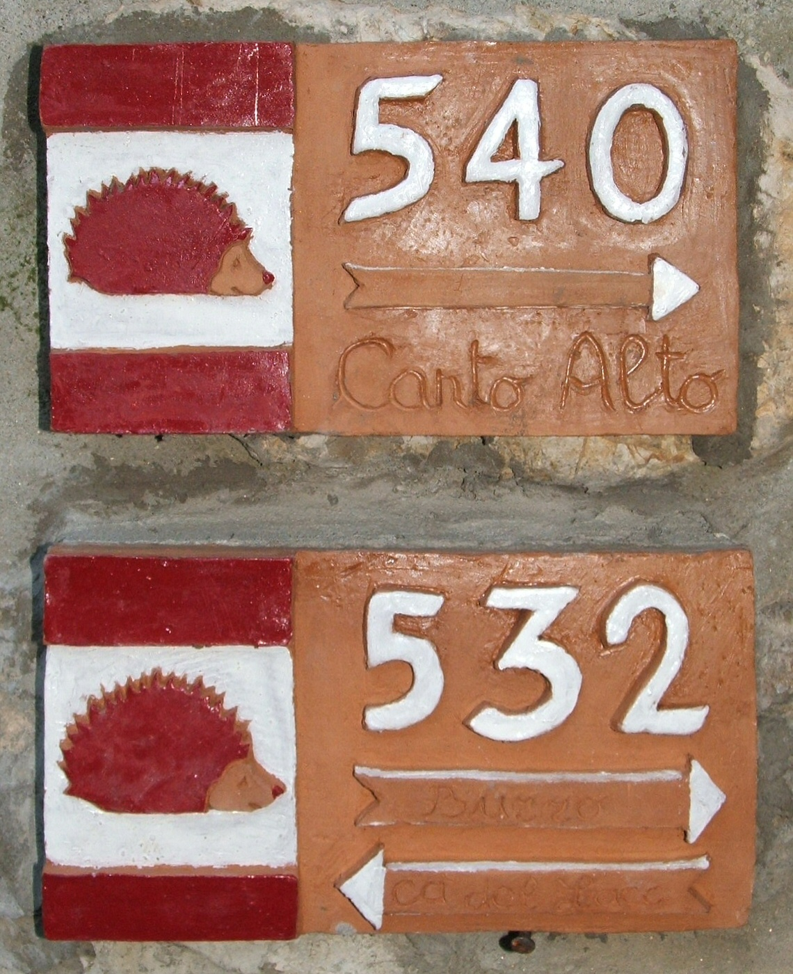 Path label of parco dei colli of Bergamo, Italy